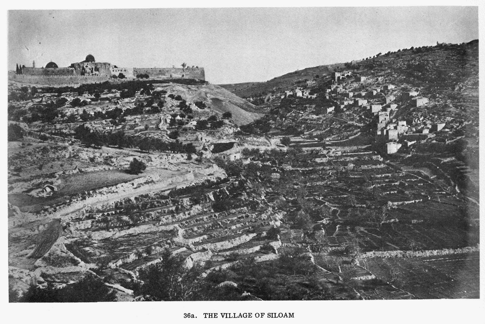 The village of Silwan lies to the south of the Old City of Jerusalem. This is a very early photograph.